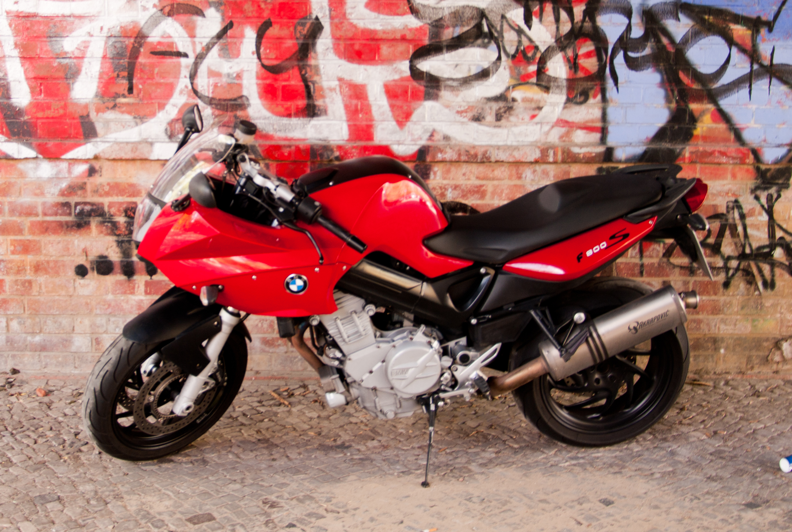 BMW motorcycle standing under a graffiti covered bridge in Berlin